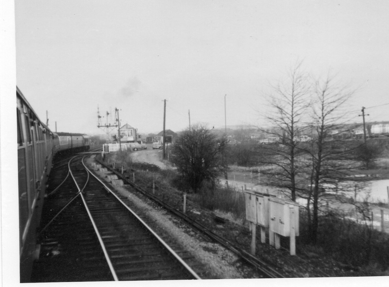 Beighton Junction 1891 (ie the 1891 junction where the MSLR "Derbyshire Lines" left the MSLR Beighton Branch, immediately south of Rotherham Road, Beighton) heading north on 27 November 1977 when trains between Chesterfield and Sheffield were diverted because of engineering work. This image was taken a few seconds after BeightonJunction1891 19771127 Northbound1 from the other side of the carriage. Cars waiting at Rotherham Road level crossing can be seen, as can the embankment carrying the MSLR Sheffield-Worksop main line on the horizon. The erstwhile GCR "Up" (southbound) line can be seen running under the third and fourth carriages, the line crossing near the photographer led to sidings. The leftmost arm of the signals used to control the Up main line and was therefore the highest. After the main line closed it was downgraded and the home signal was lowered to the position of the erstwhile distant arm., though the upright remained the highest, as can be seen. Beighton Station signalbox outlived Beighton Station by many years, the station had been immediately beyond the 'box as we look at it in this view.